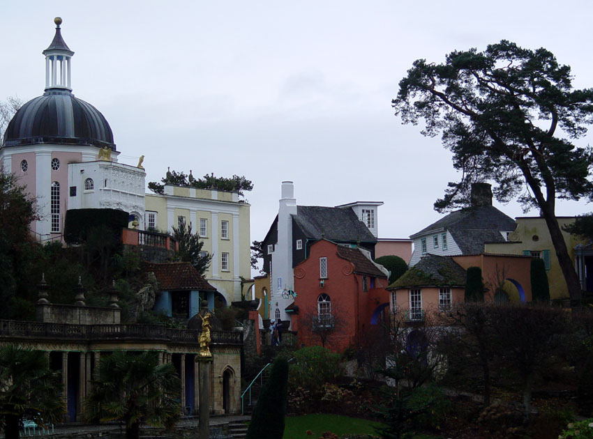 Pantheon in Portmeirion